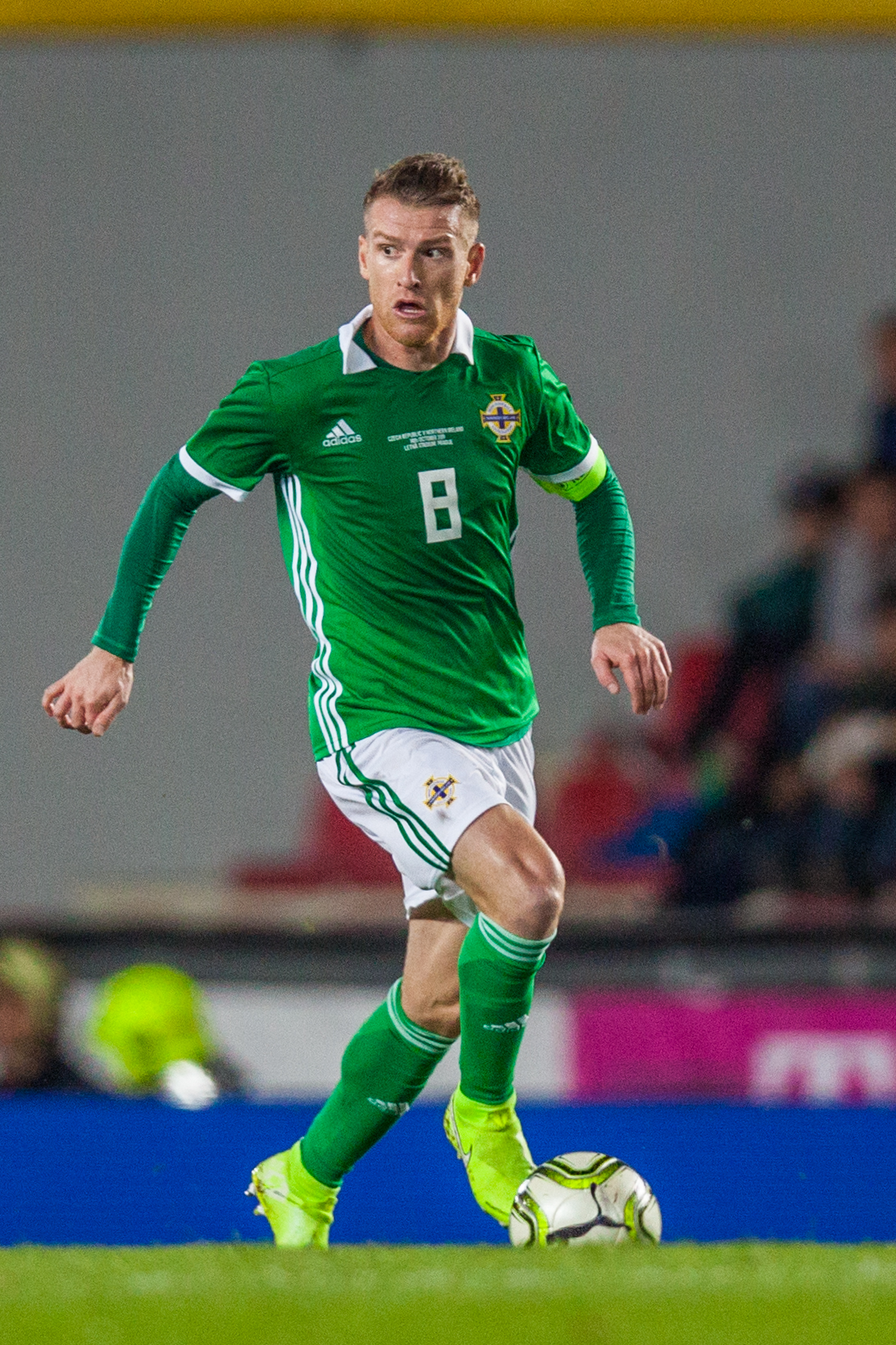 Steven Davis in an international friendly match between Czech Republic and Northern Ireland (2:3), Stadion Letná (Prague) 2019-10-14 The making of this work was supported by Wikimedia Austria. For other files made with the support of Wikimedia Austria, please see the category Supported by Wikimedia Österreich. Personality rights warningAlthough this work is freely licensed or in the public domain, the person(s) shown may have rights that legally restrict certain re-uses unless those depicted consent to such uses. In these cases, a model release or other evidence of consent could protect you from infringement claims.